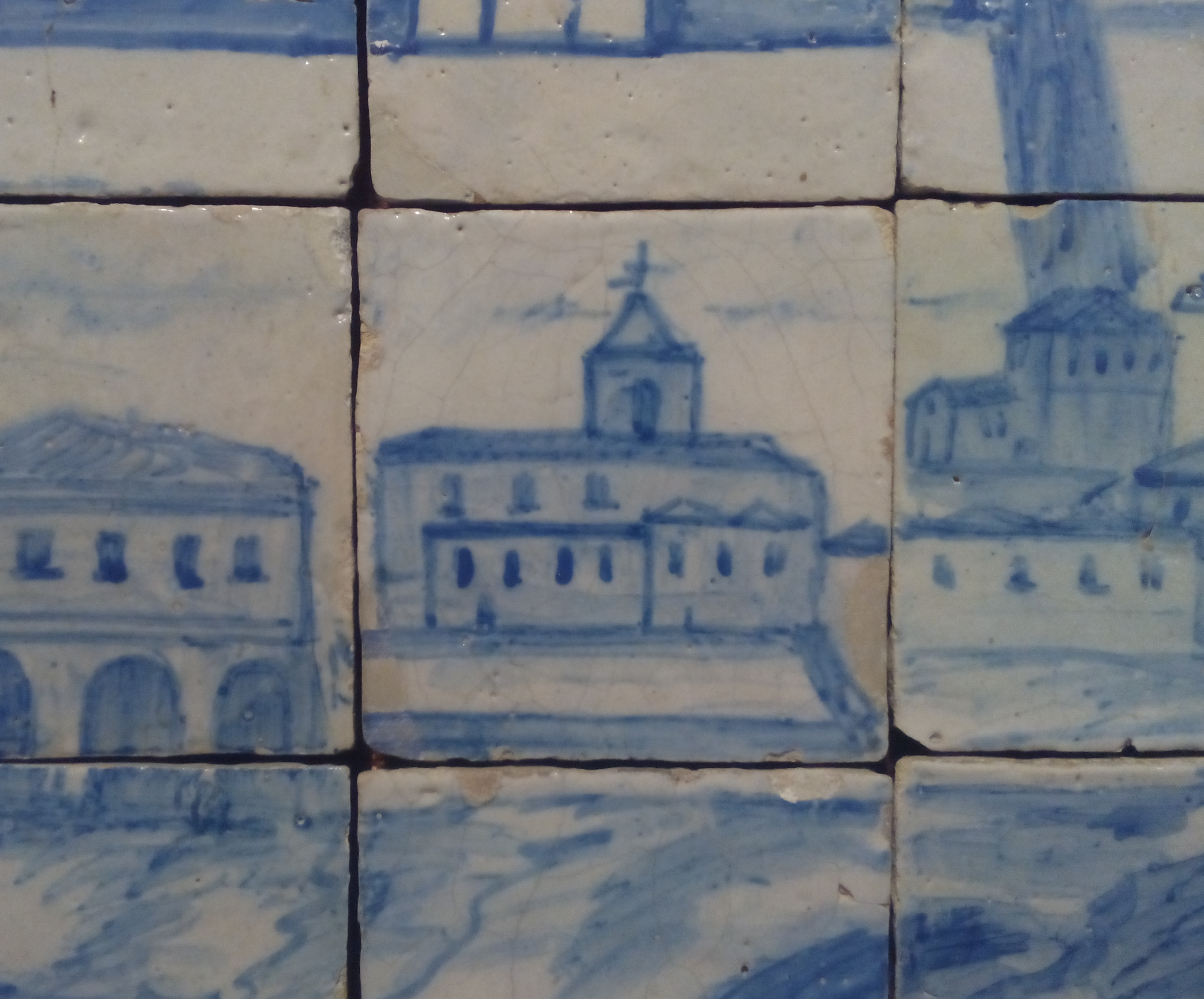 Depiction of the Convent of Saint Apollonia (Convento de Santa Apolónia), in Lisbon, in an early 18th-century tile panel depicting a view of city. Currently in the National Tile Museum (Museu Nacional do Azulejo), in Lisbon, Portugal.